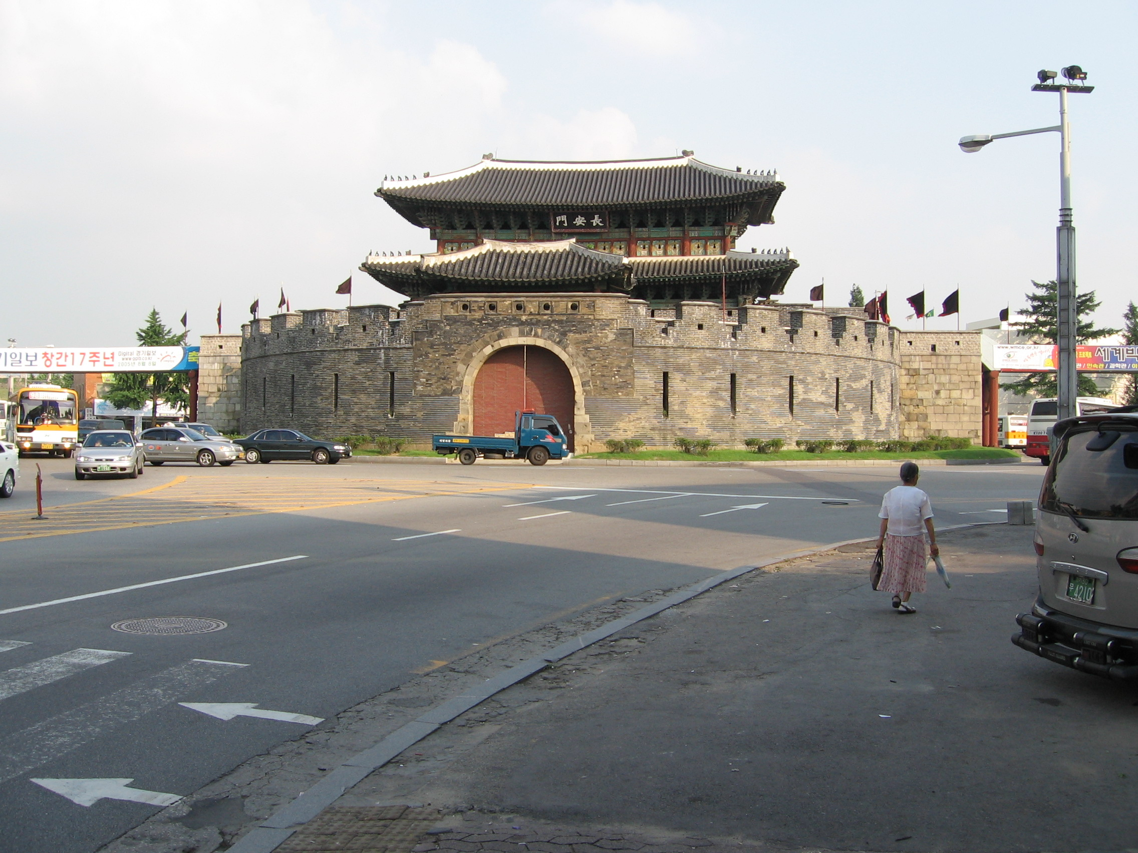 The north gate Jangan-mun of the city wall of Suwon.